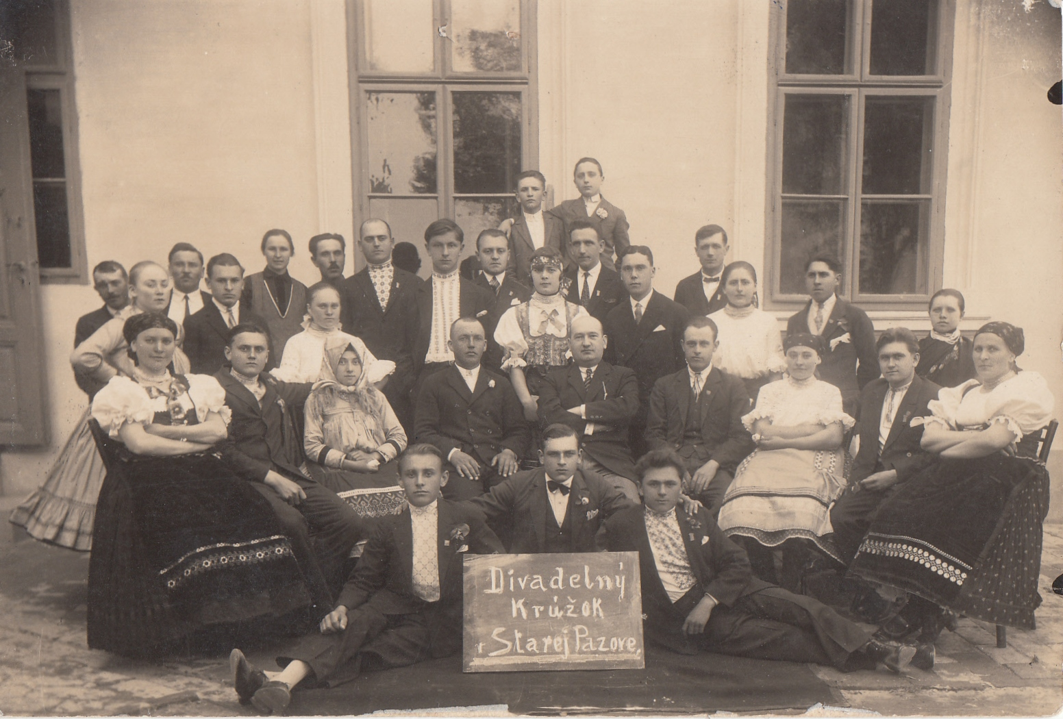 Vojvodinian Slovak theater troupe from Stara Pazova (1929). Inventory number 2656. Srpski (latinica): Pozorišna trupa vojvođanskih Slovaka iz Stare Pazove (1929). Inventarski broj 2656.